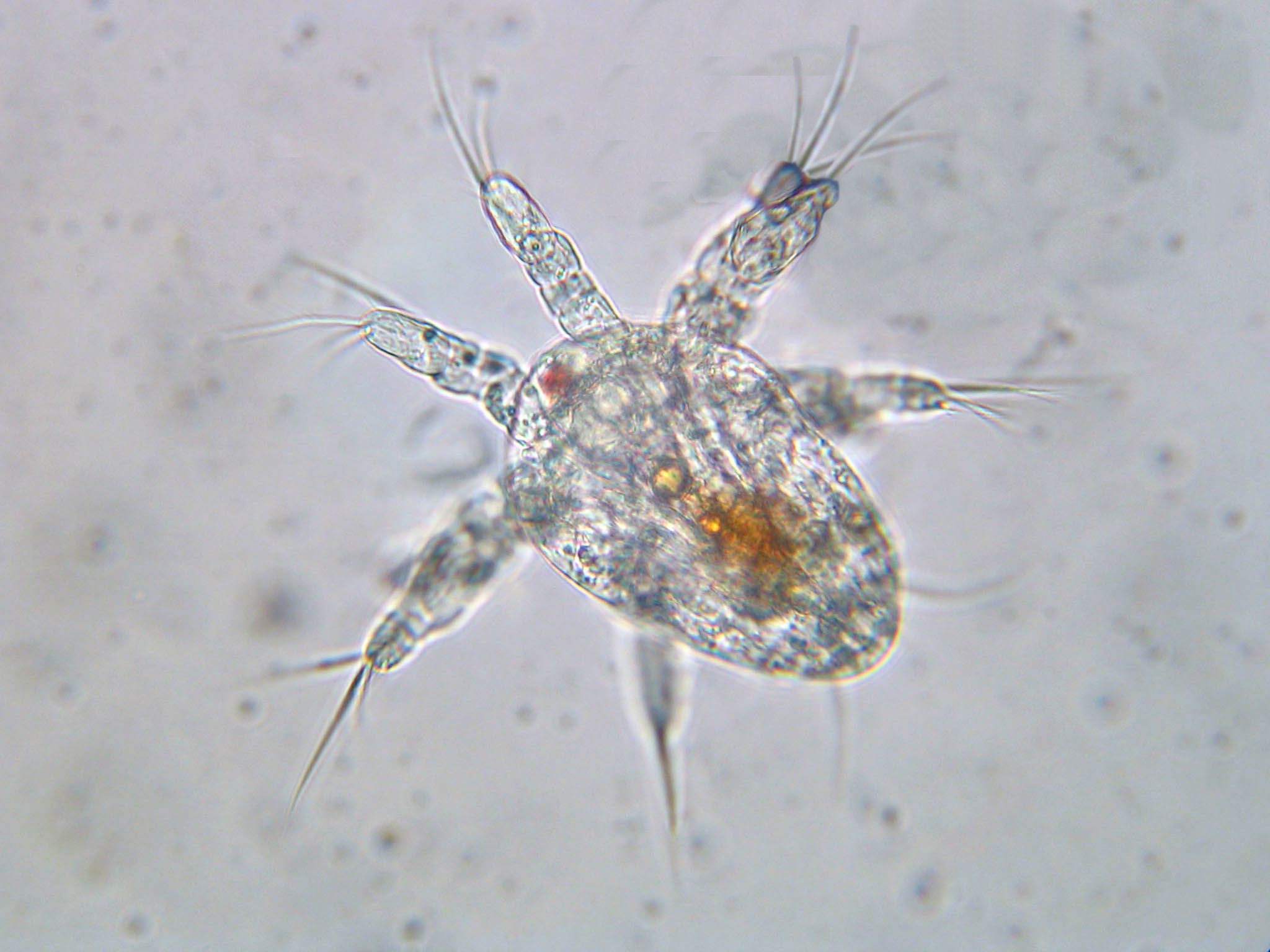 Nauplius larva of the freshwater copepod, the cyclops. Photograph taken with a canon powershot A75 through 10x objective and 10x ocular by Jasper Nance.